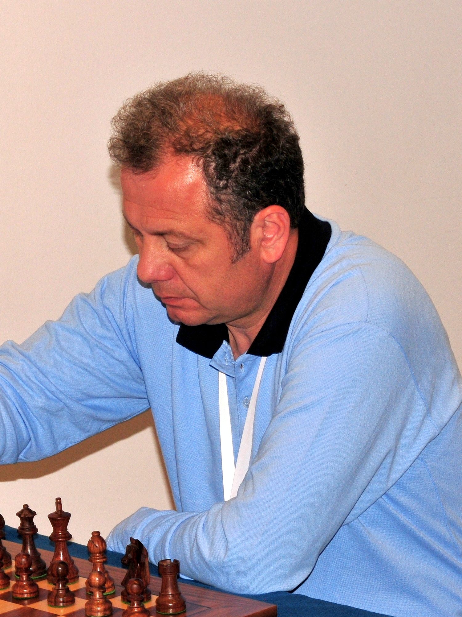 GM Zvonko Stanojoski, European Chess Team Championship Warsaw 2013